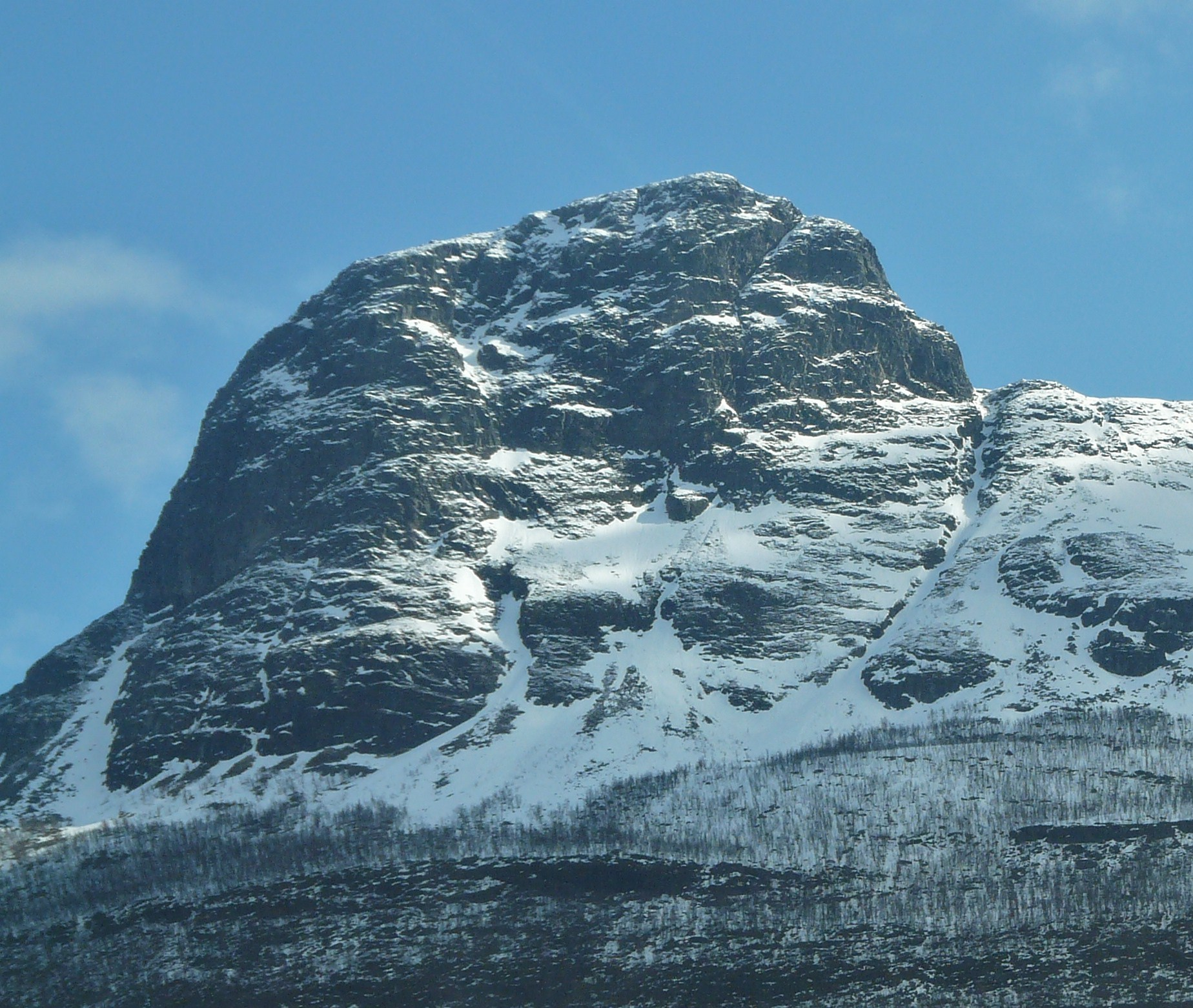 Hatten (1,075 m) as seen from the southwest from the E6 road in 2009 May.